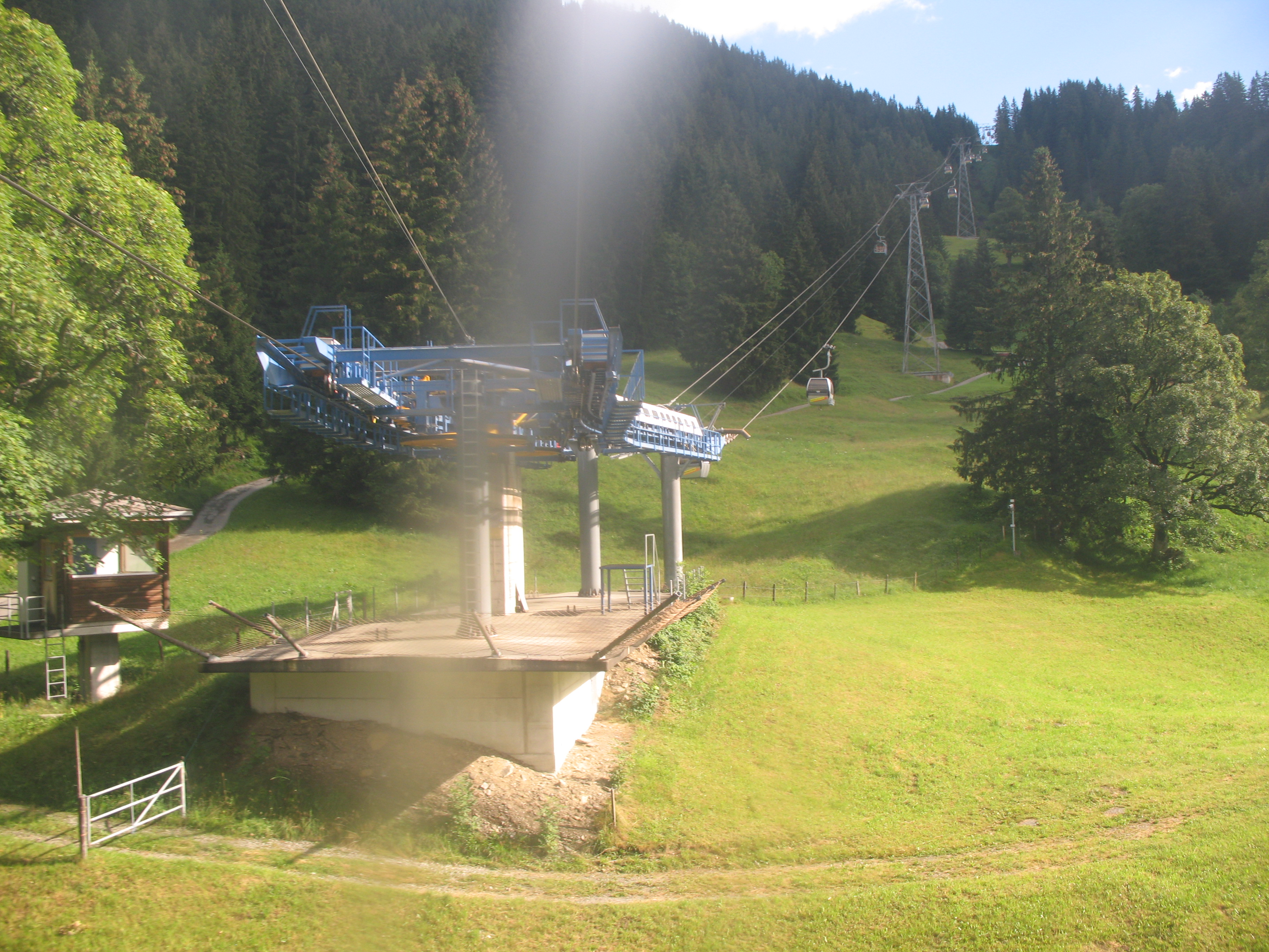 View from the First gondola lift, Grindelwald, Switzerland